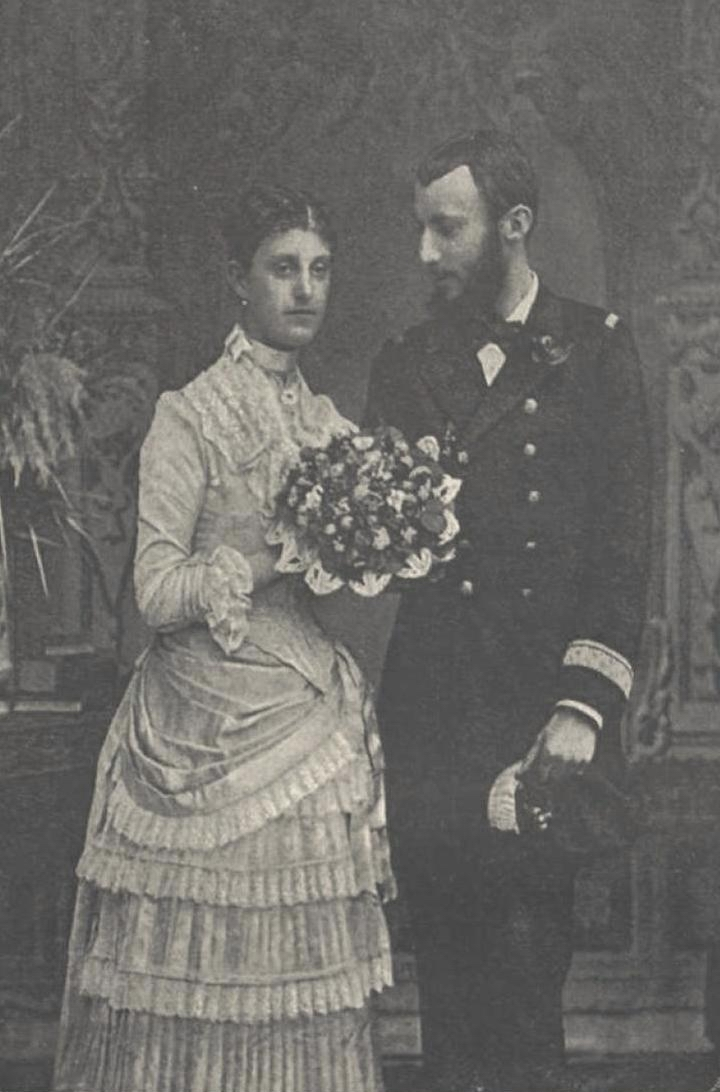 Archduke Karl Stephan of Austria and Archduchess Maria Theresia, Princess of Tuscany